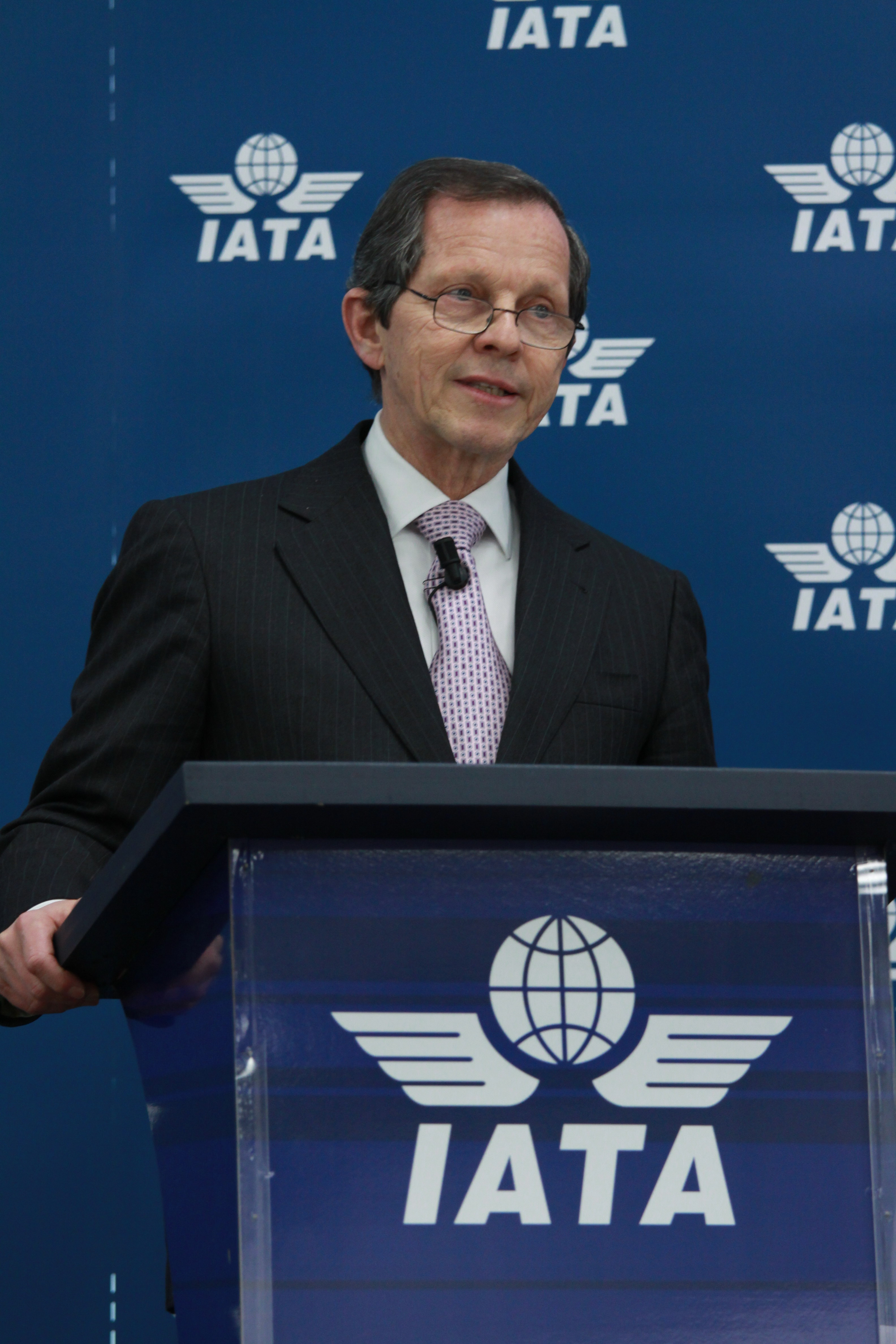 Press Conference by Janet Napolitano, Secretary of Homeland Security, and Giovanni Bisignani, Director General and CEO of IATA, at IATA headquarters in Geneva, Switzerland January 22, 2010. U.S. Mission Photo / Eric Bridiers